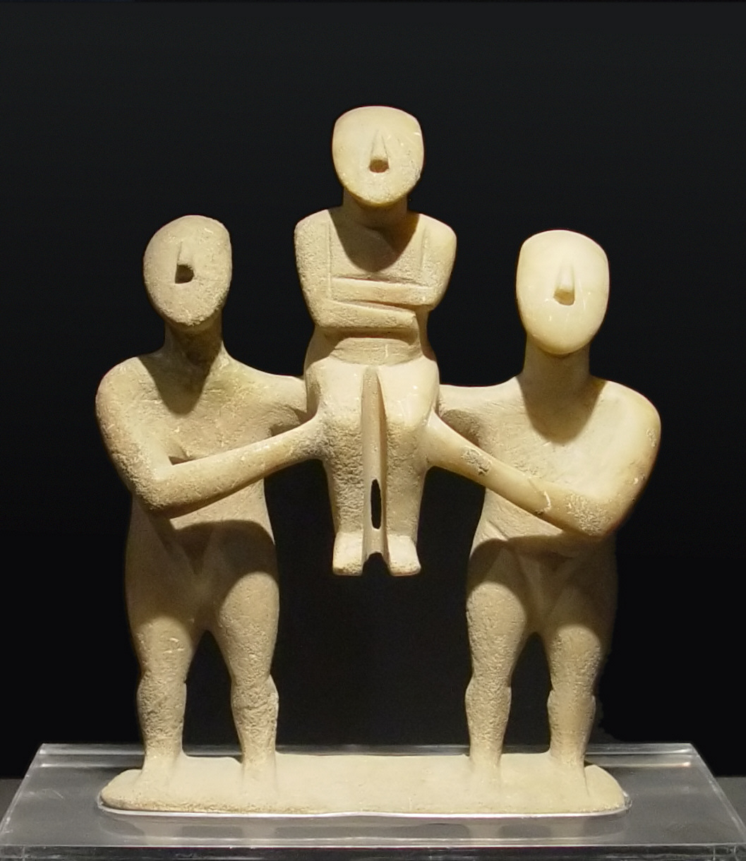 group of three figurines, Badisches Landesmuseum, Karlsruhe, Germany, Inventory# K9, marble, H 19 cm, W 15,4 cm, D 3,7 cm, cycladic figurines, bronze age, from the early cycladic II period, early spedos type.